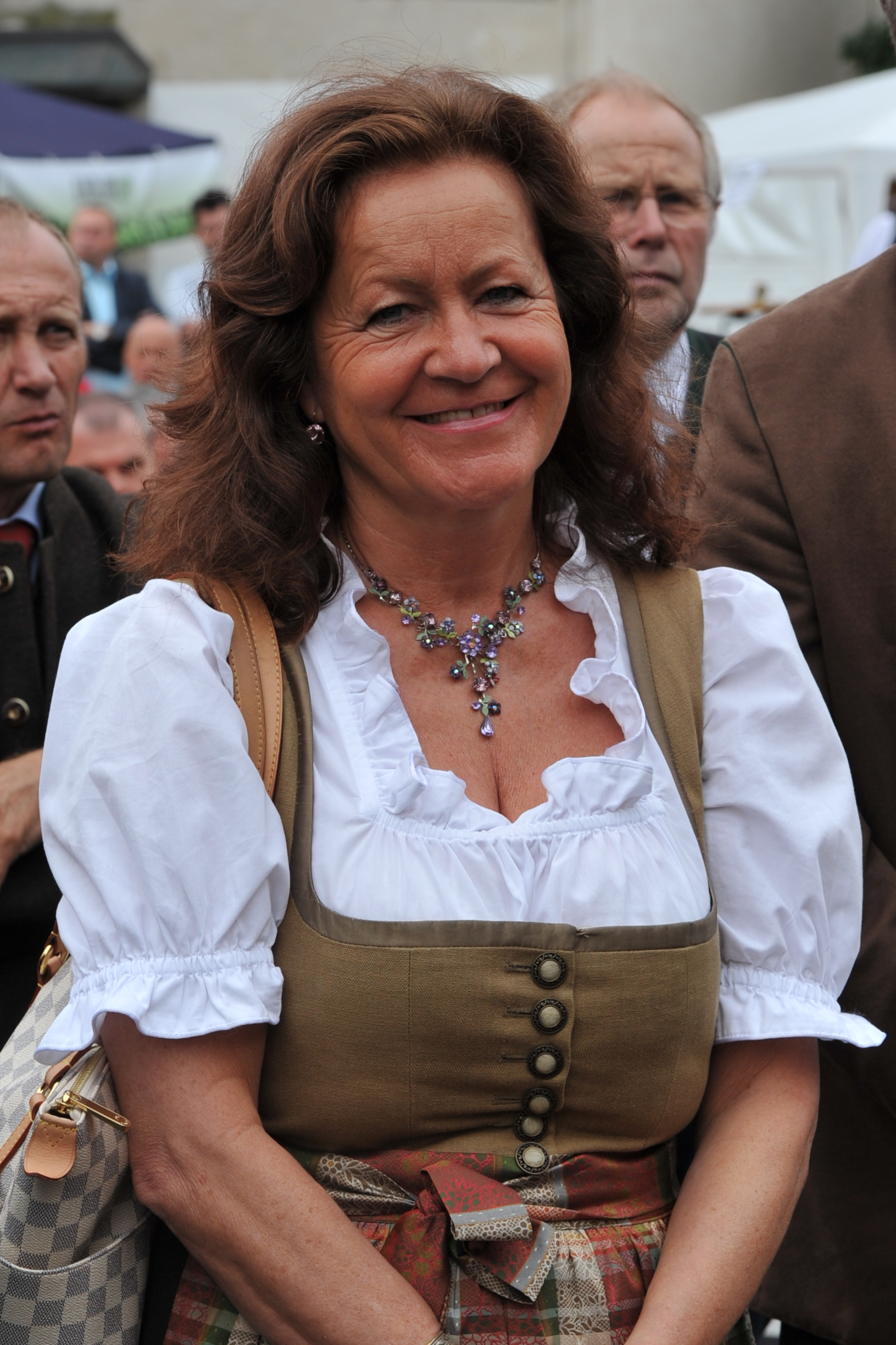 The making of this work was supported by Wikimedia Austria. For other files made with the support of Wikimedia Austria, please see the category Supported by Wikimedia Österreich. Notburga Astleitner bei der Ortsbildmesse Perg 2012